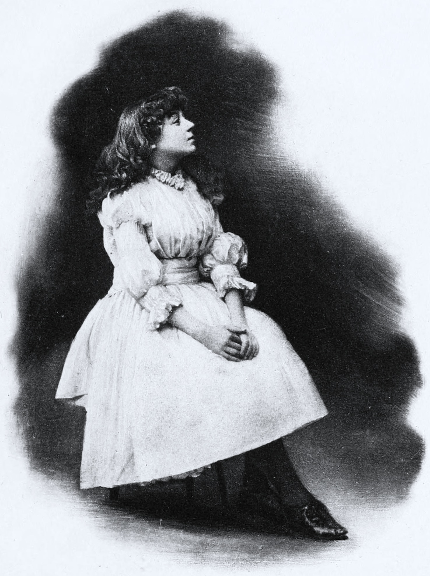 Isa Bowman (1874–1958) was an actress, a close friend of Lewis Carroll and author of a memoir about his life, The Story of Lewis Carroll, Told for Young People by the Real Alice in Wonderland. This photo is assumed to have been taken in approximately 1888 as it was originally captioned: Miss Isa Bowman as Alice in Alice in Wonderland